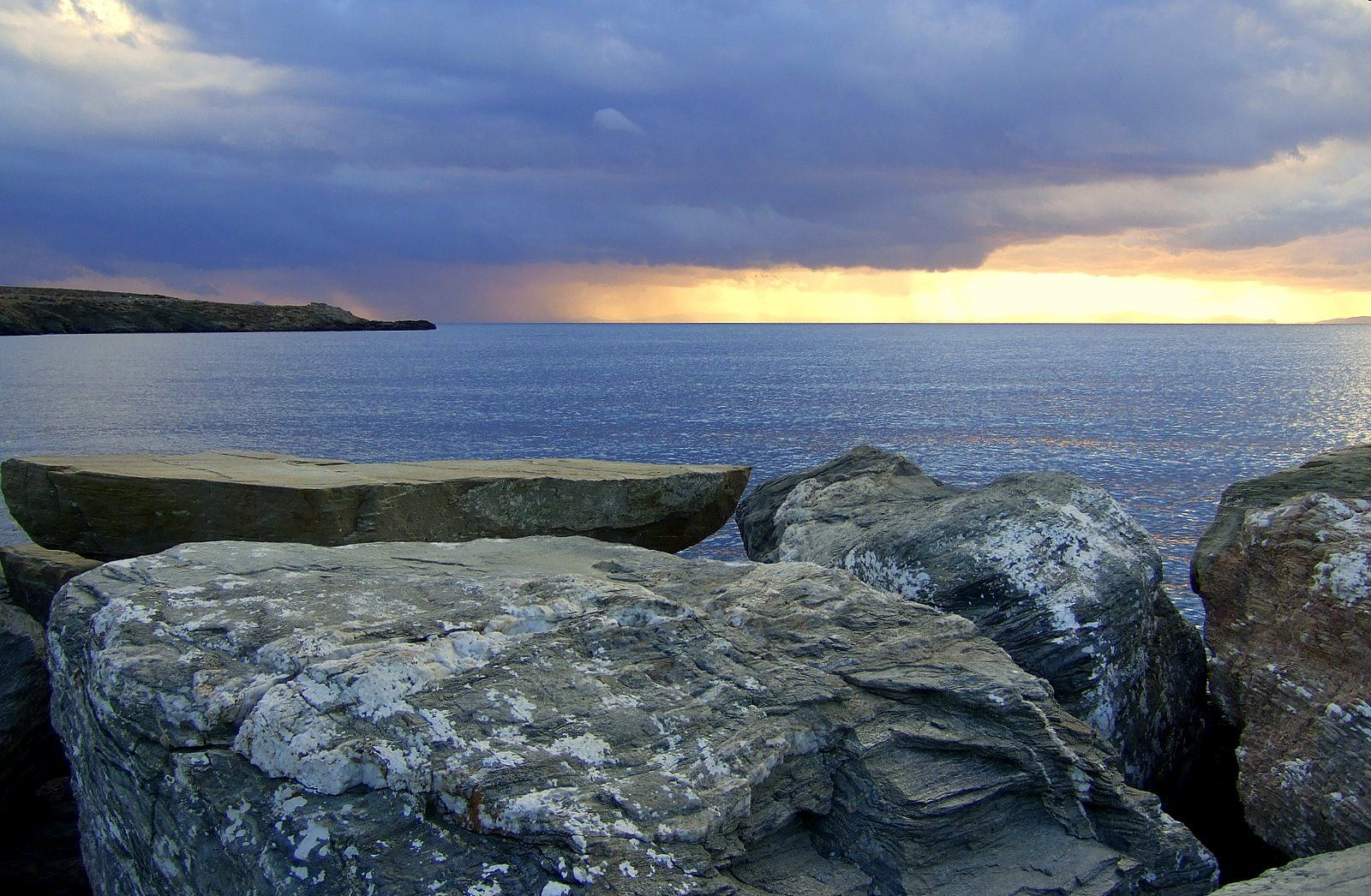 Looking out towards a downpour and the rising sun from the the breakwaters of Loutra harbour, the island of Kythnos, Cyclades, Greece.